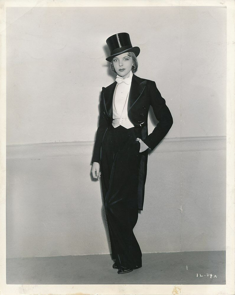 Ida Lupino, 1937. Vintage 1937 8x10 photo issued by RKO studio